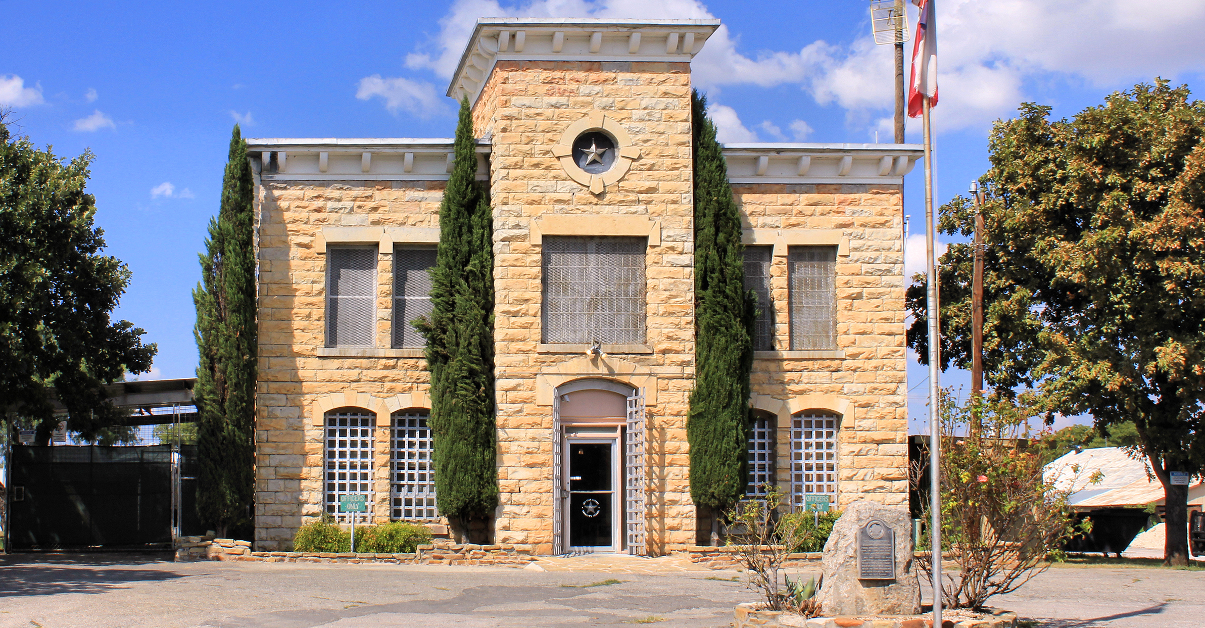 The former San Saba County Jail in San Saba, Texas, United States. The jail was built in 1884 and designated a Recorded Texas Historic Landmark in 1969.